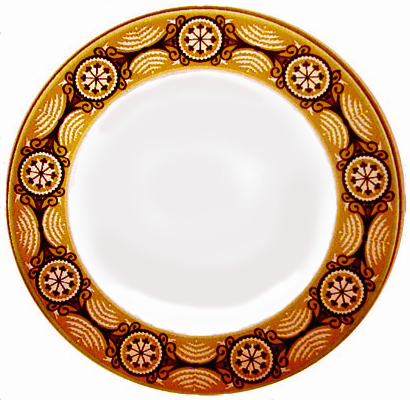 Plate from the White House state china service of James Madison. Gilt on porcelain, Nast Porcelain, Paris. 1814. Source Colllection of the White House